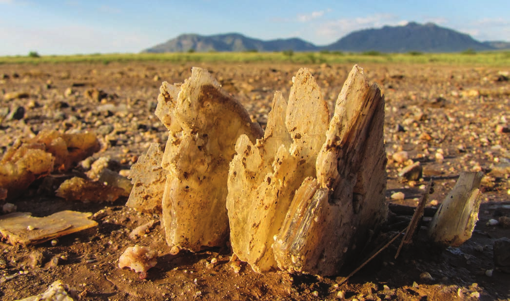 Selenite crystal, White Sands National Park, New Mexico, United States